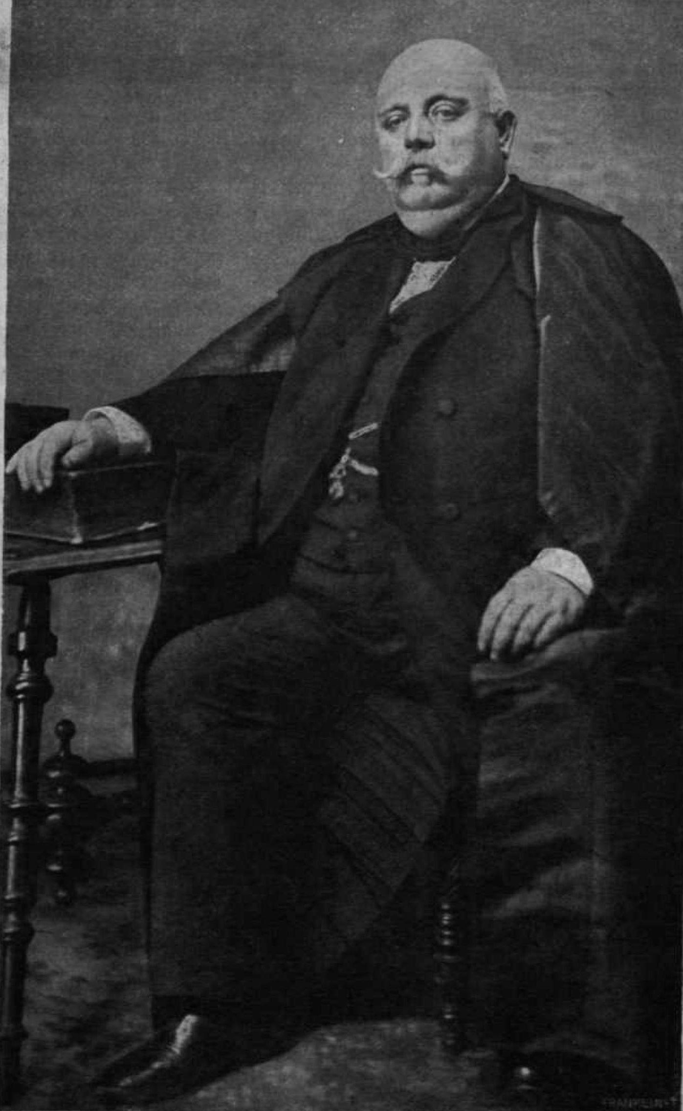 Lajos Erőss